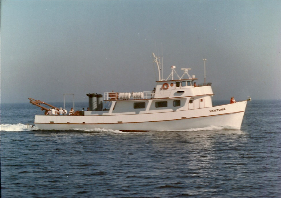 Research Vessel Vantuna, owned by Occidental College, Los Angeles. Picture taken in 1984.